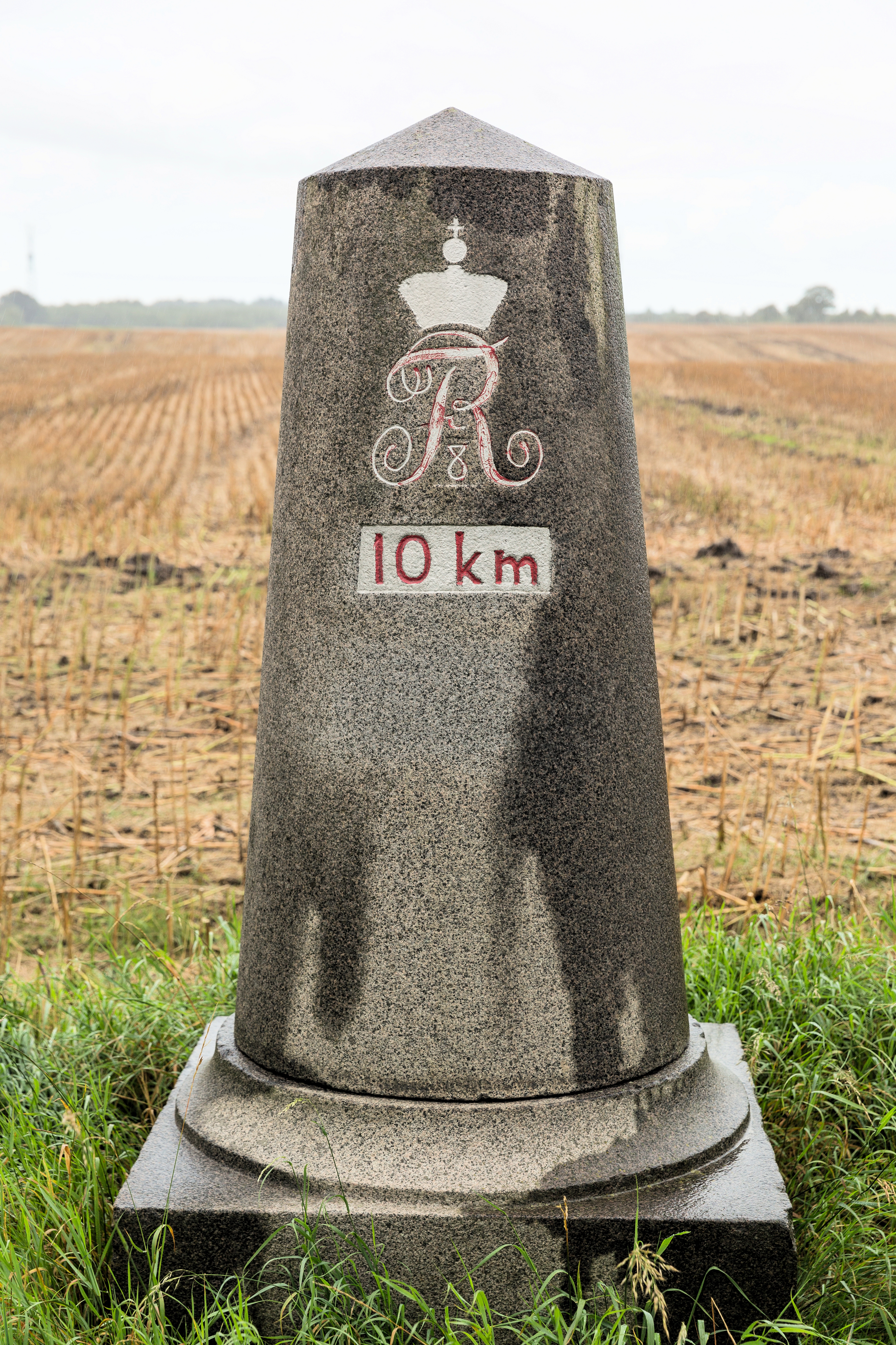 Milestone between Christiansfeld and Kolding